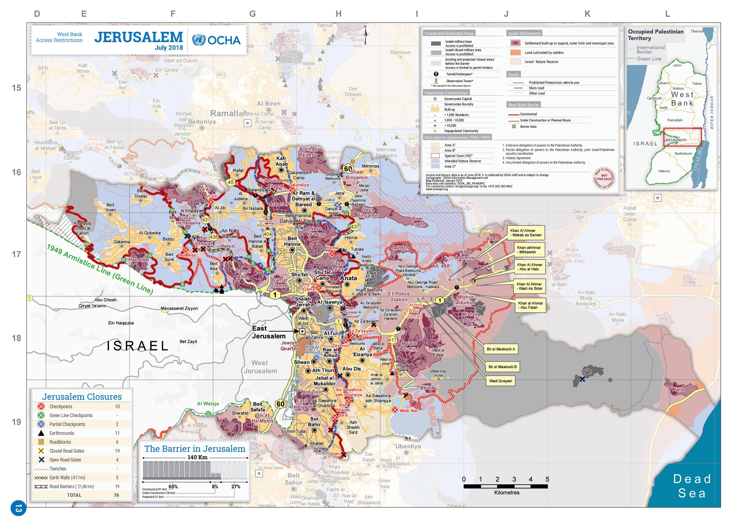 2018 OCHA OpT map